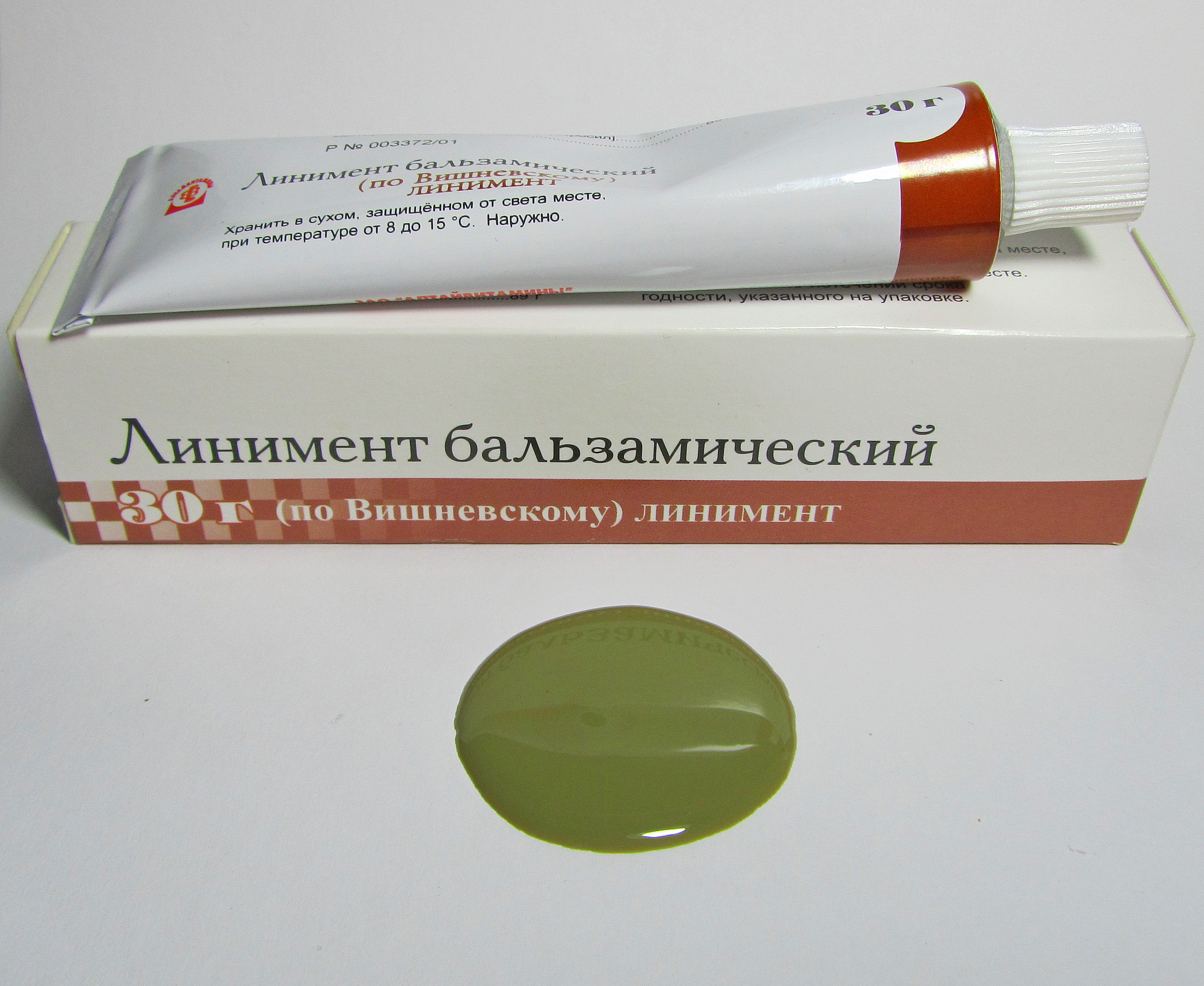 Vishnevsky liniment